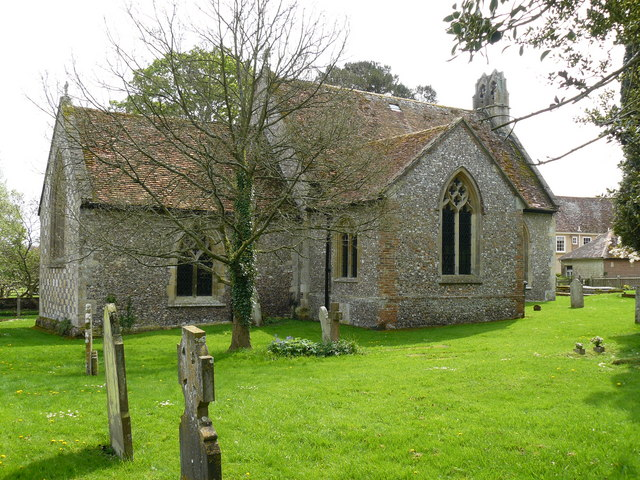 Penton Mewsey Original description: Penton Mewsey - Holy Trinity Church Holy Trinity Church and graveyard.